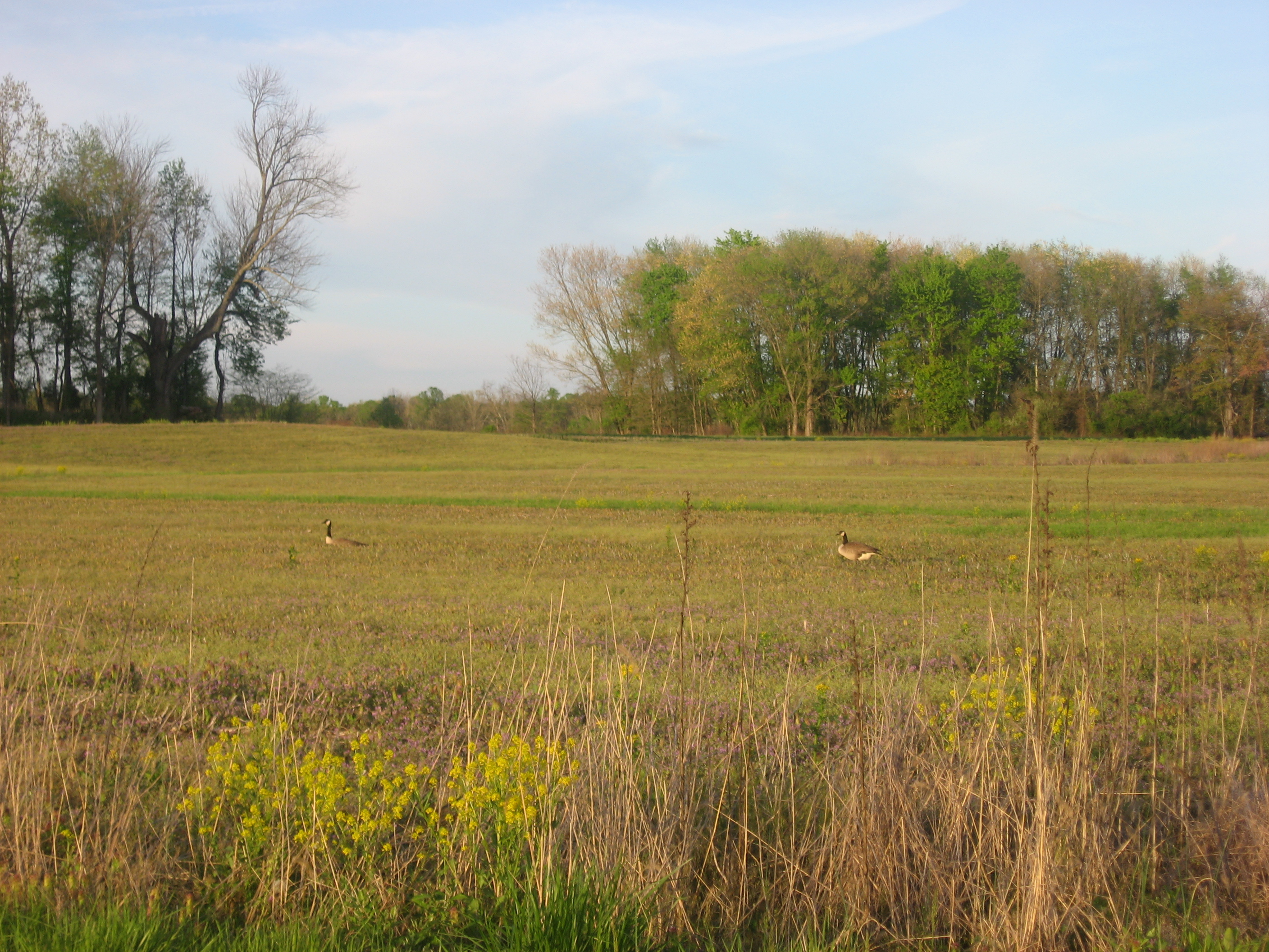 Geese in a field on the Muscatatuck National Wildlife Refuge, located just southeast of the junction of E500N and N1225E in Jackson Township, Jackson County, Indiana, United States.